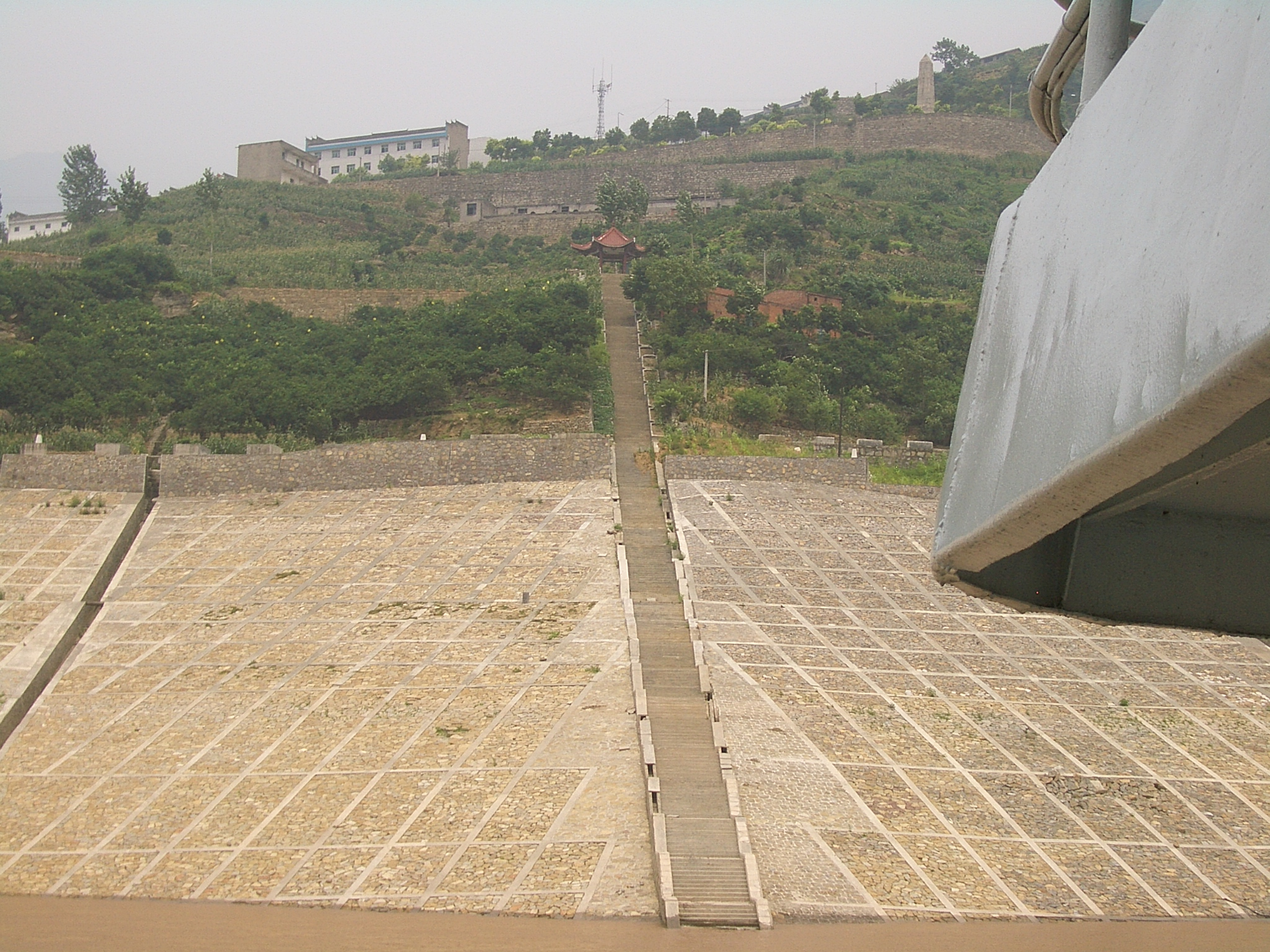 Qu Yuan Town (named after Qu Yuan, who lived nearby) in Hubei's Zigui County. A long stairway is necessary for the access to the Three Gorges Reservoir—Chang Jiang (Yangtze River)'s water, due to the varying water level in the reservoir.